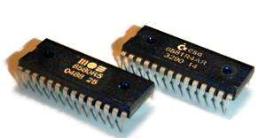 Image of the MOS Technology SID also known as 6581.